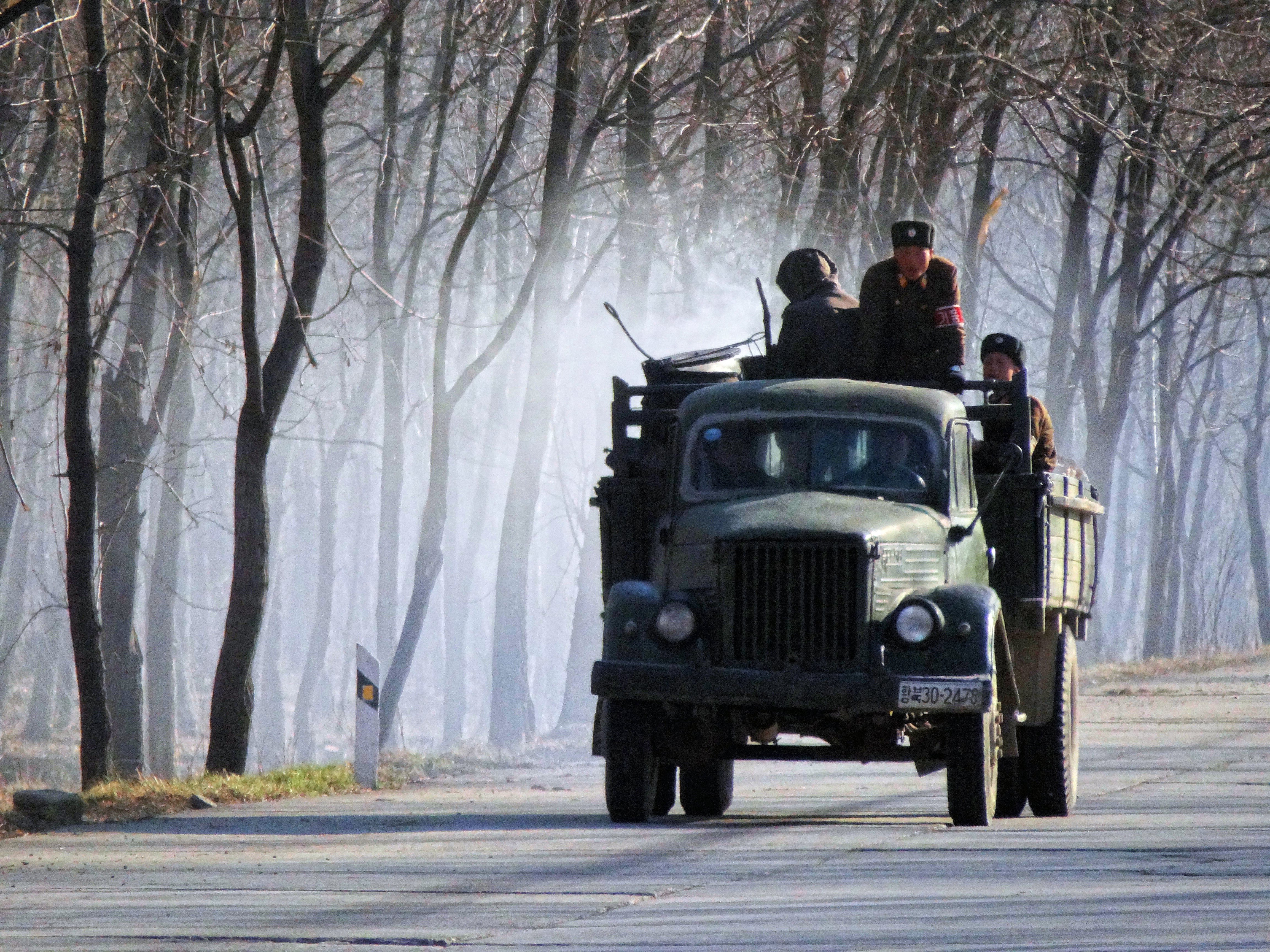 A wood gas vehicle (military truck) on the road in North Korea.